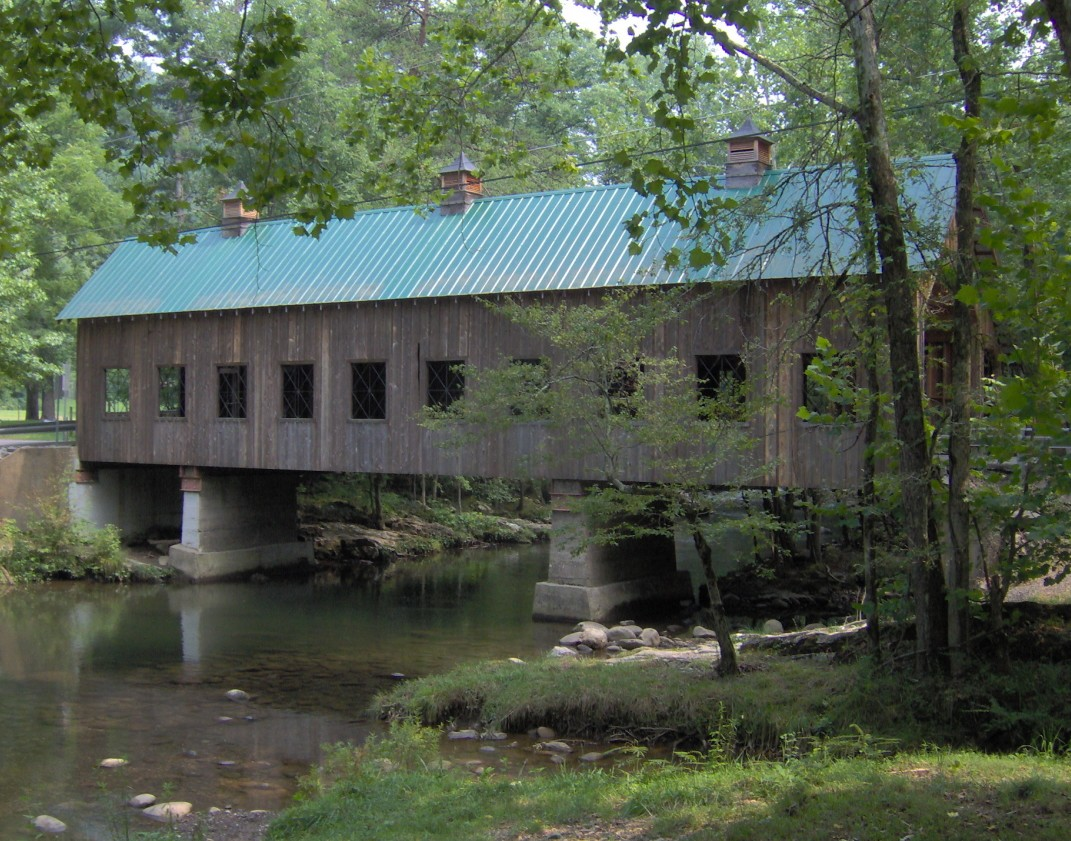 Emert's Cove Covered Bridge, in Pittman Center, Tennessee. The bridge was built in the 1990s, and named in honor of Frederick Emert (1754-1829), a veteran of the American Revolution and early settler in the area. The bridge spans the Middle Fork of the Little Pigeon River.